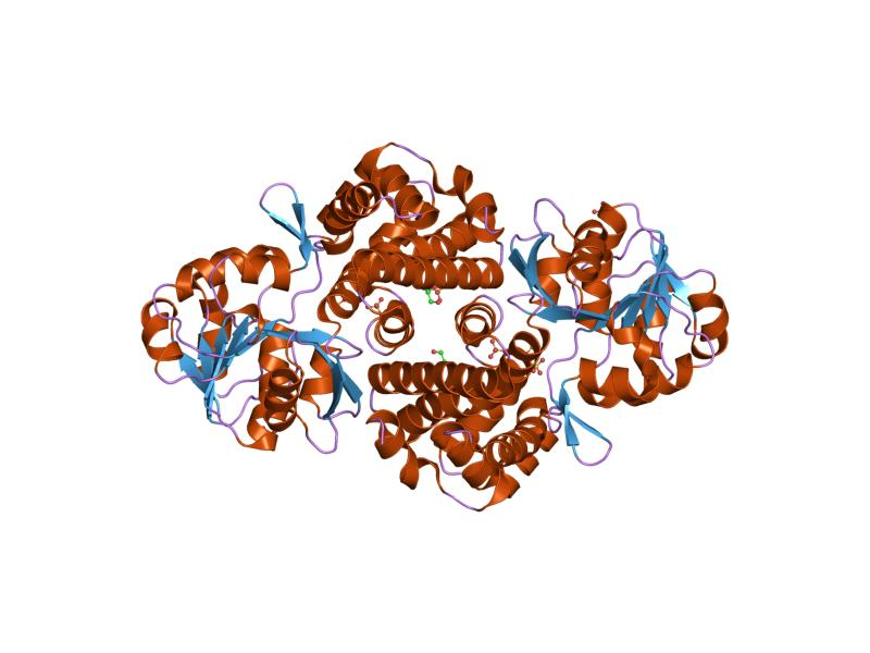 Cartoon representation of the molecular structure of protein registered with 1txg code.